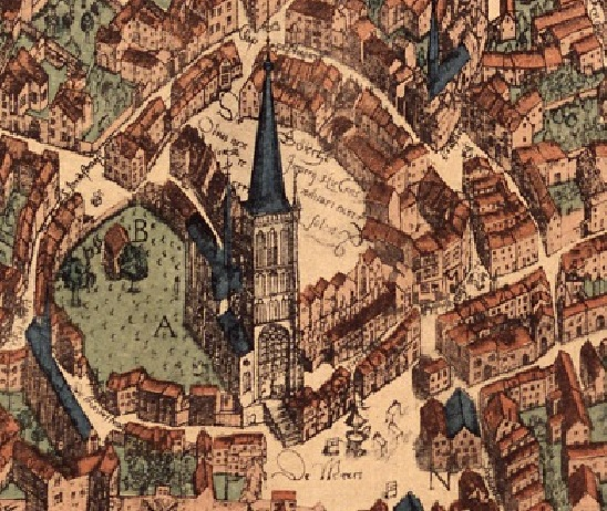 view of Burgplatz in Duisburg, 1566